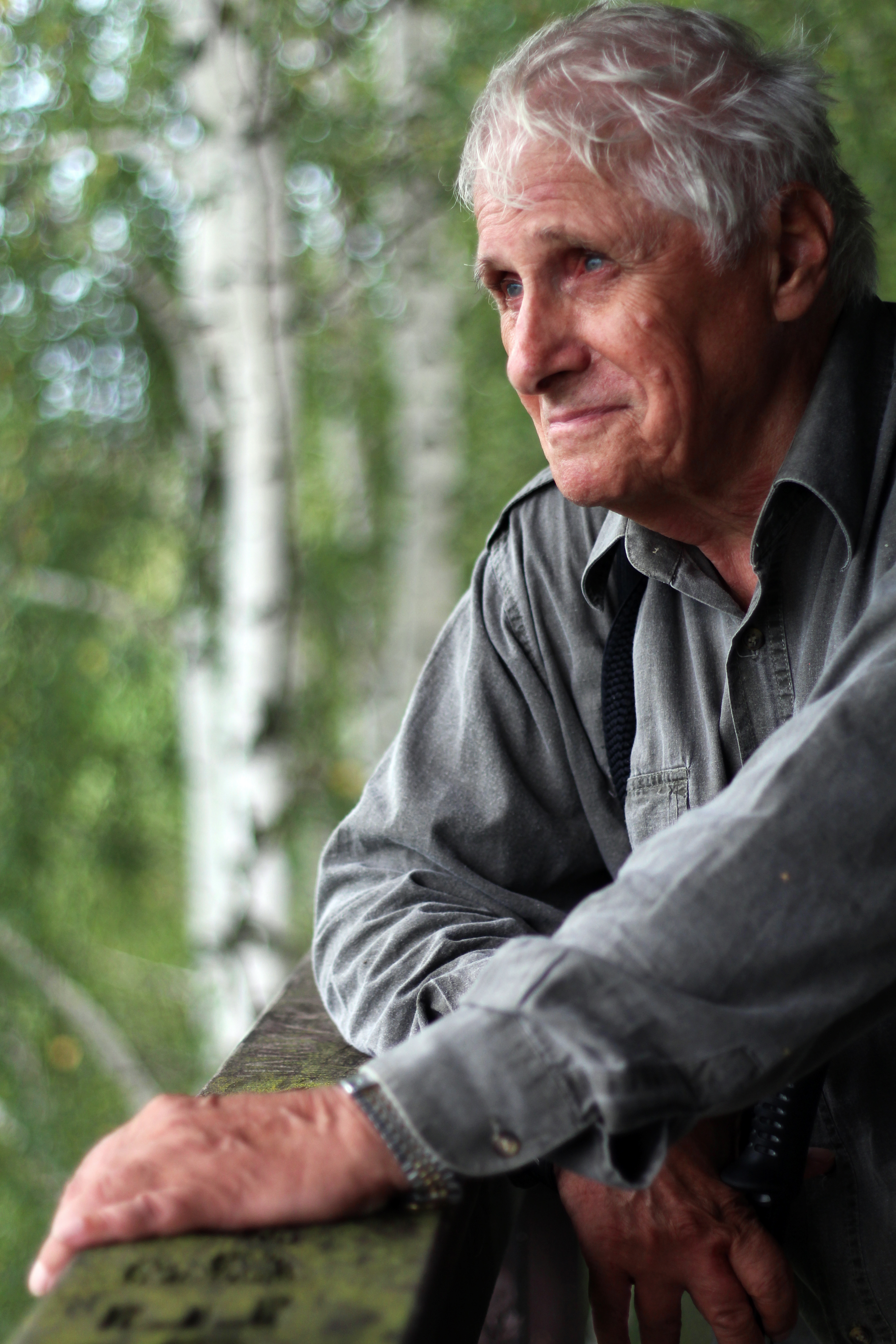 Polish psychopharmacologist Jerzy Vetulani (1936–2017) in the Polesie National Park in Poland.